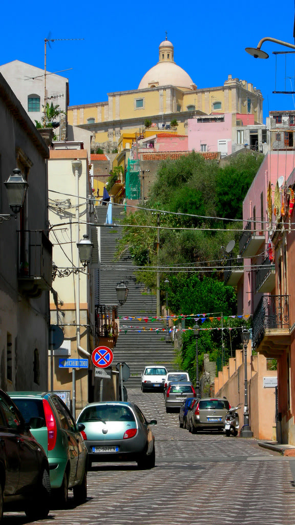 Milazzo